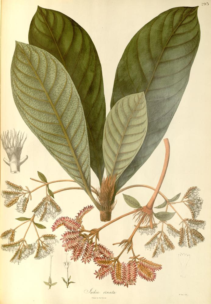 Jackia ornata Wall. from "Plantae Asiaticae Rariores" Nathaniel Wallich = Jackiopsis ornata (Wall.) Ridsd.